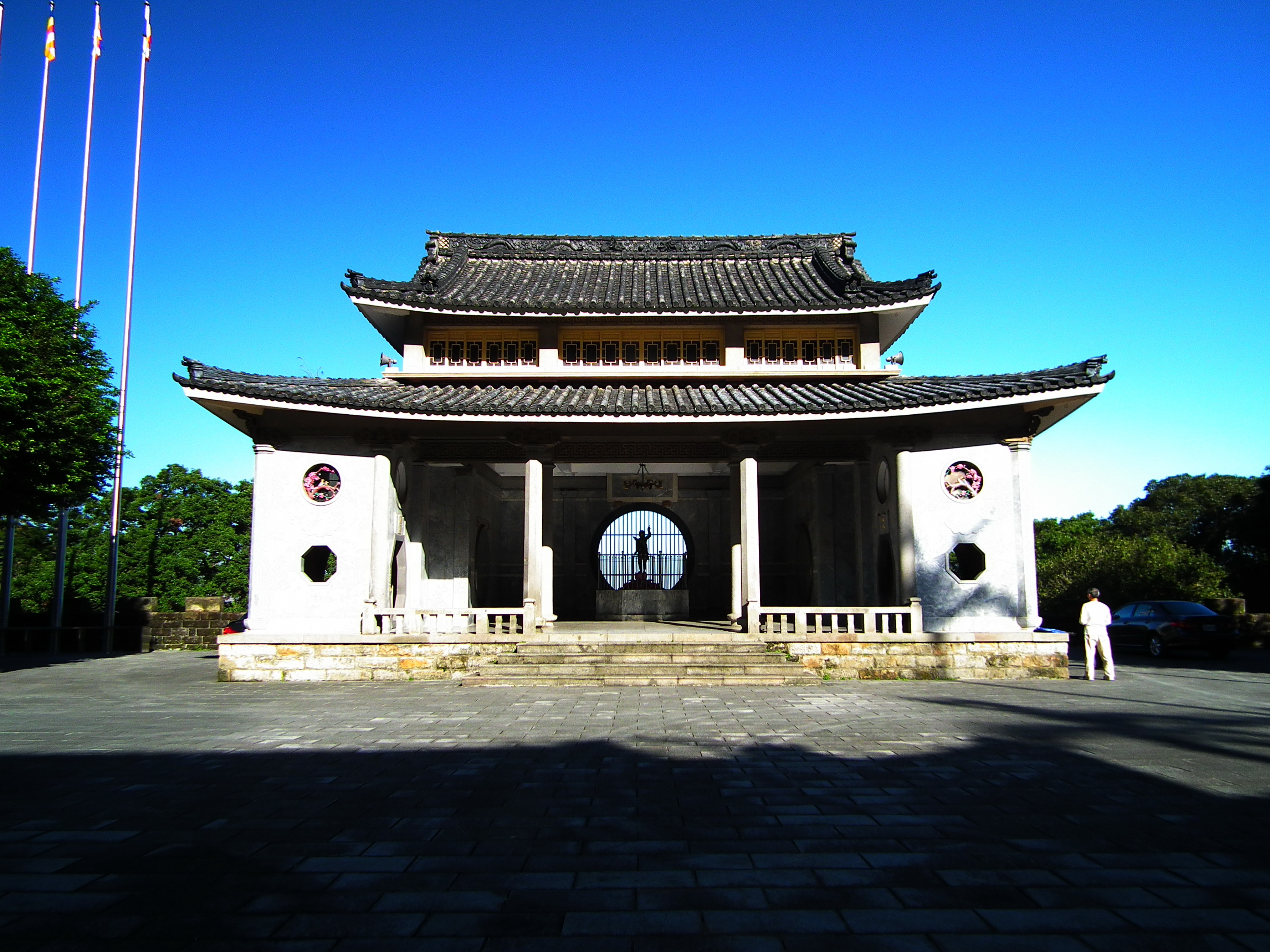 圓通寺前殿 The Front Hall of Yuantong Temple